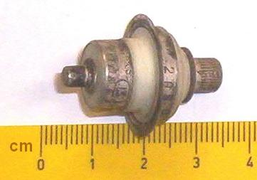 Small high frequency triode vacuum tube produced in Soviet Union (09/1977). The shape is designed to reduce the capacitance and inductance of the electrode leads, which limits the frequency normal tubes can be used, causing parasitic oscillations and instability. The ring around the center is the grid connection.